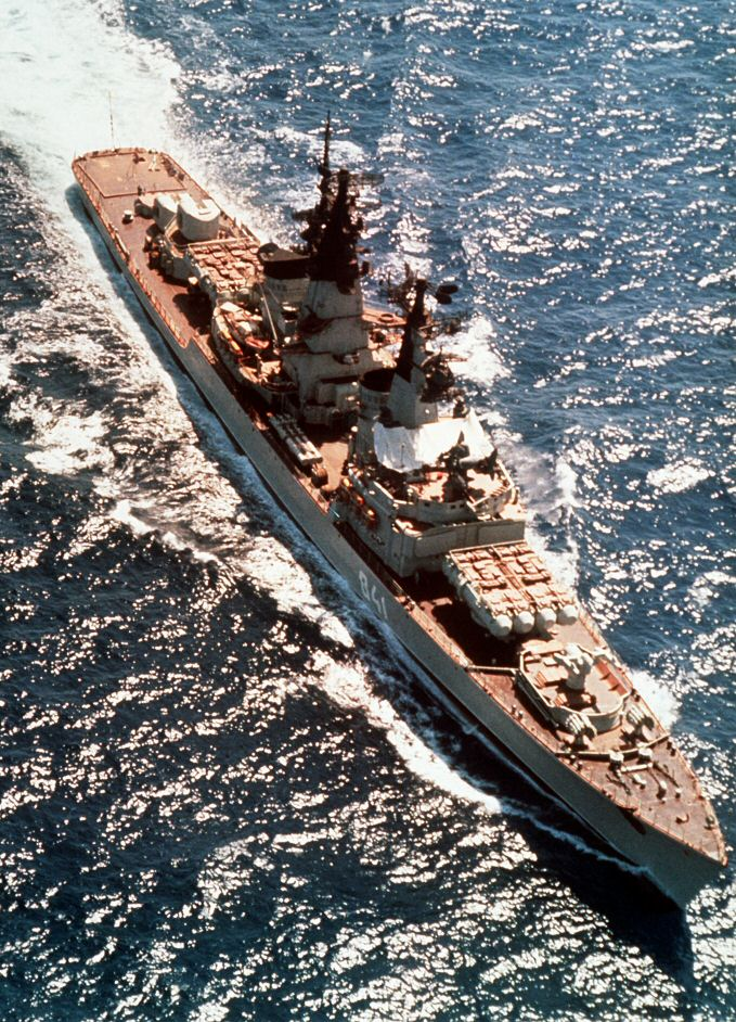 Soviet missile cruiser Project 58 (Kynda) class Admiral Golovko, 18 Sep 1990